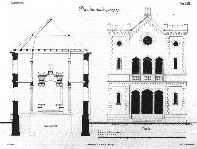 Architect drawings for the synagogue of Kippenheim (Germany). Due to budget restriction, the windows with horseshoe arches were replaced by round arches.